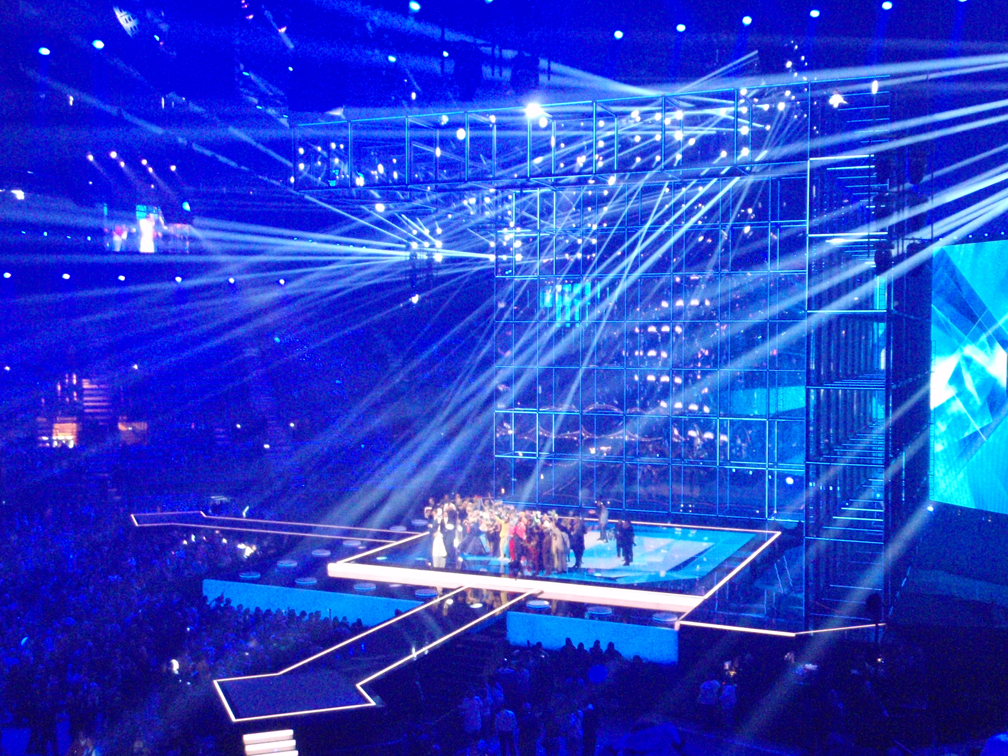 ESC 2014 Copenhagen semi 1 jury stage with some of the contestants on stage